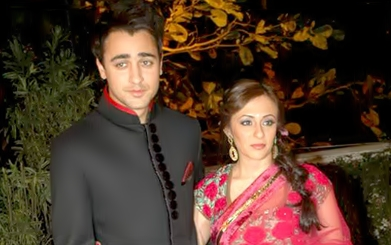 Imran Khan and Avantika Malik at their Wedding Reception